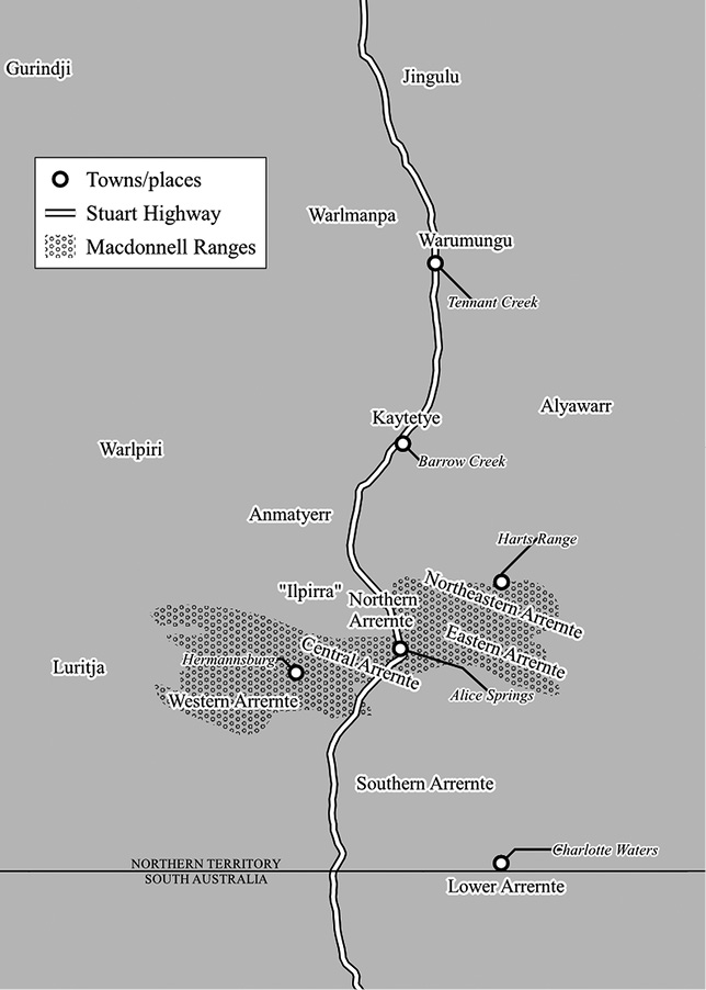 Diagrammatic map showing area of north-eastern area of Northern Territory, Australia, from Charlotte Waters in the south to north of Tennant Creek. Shows mostly Arrernte dialects, with adjacent language groups.